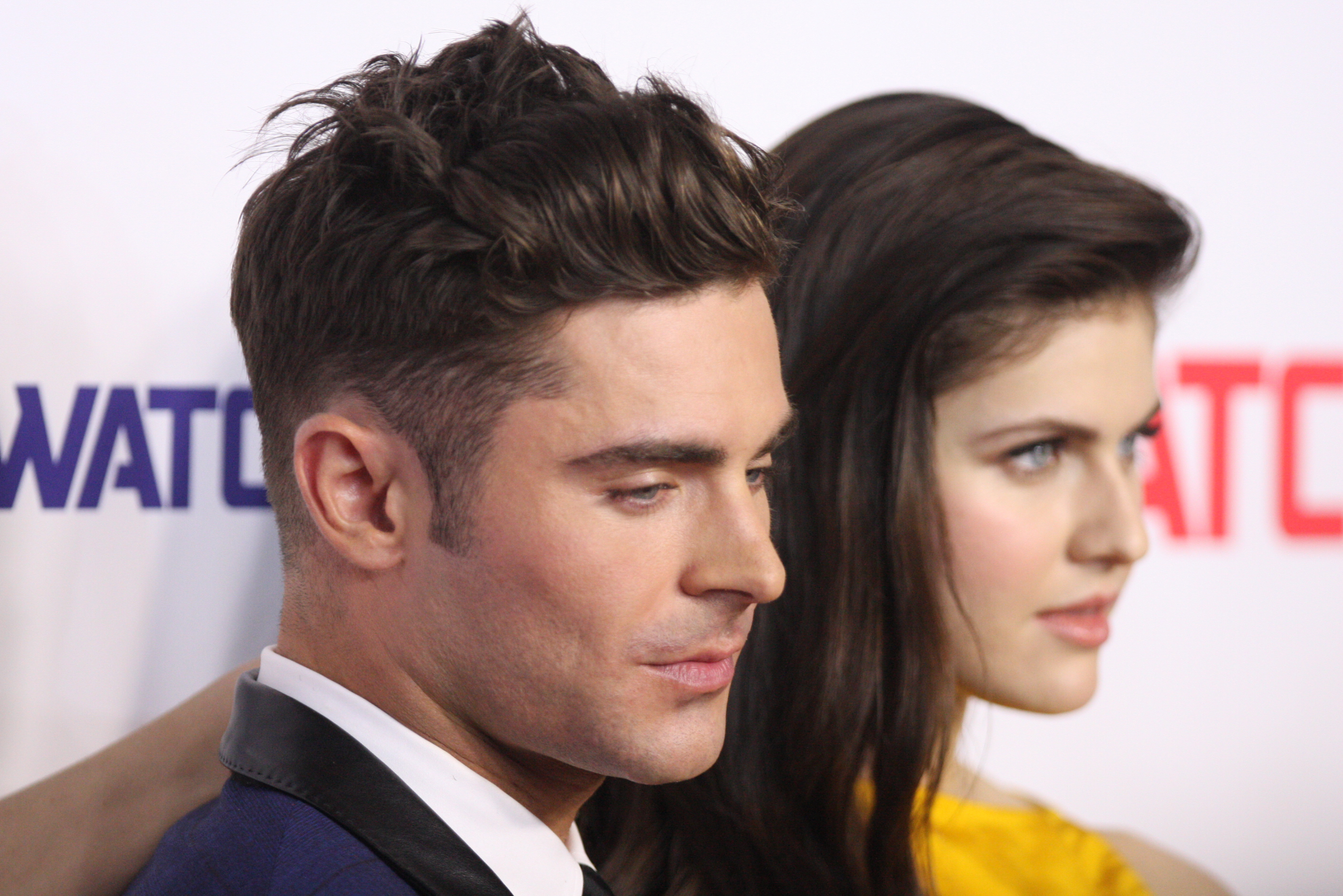 Zac Efron and Alexandra Daddario at Baywatch Red Carpet Premiere in Sydney Australia